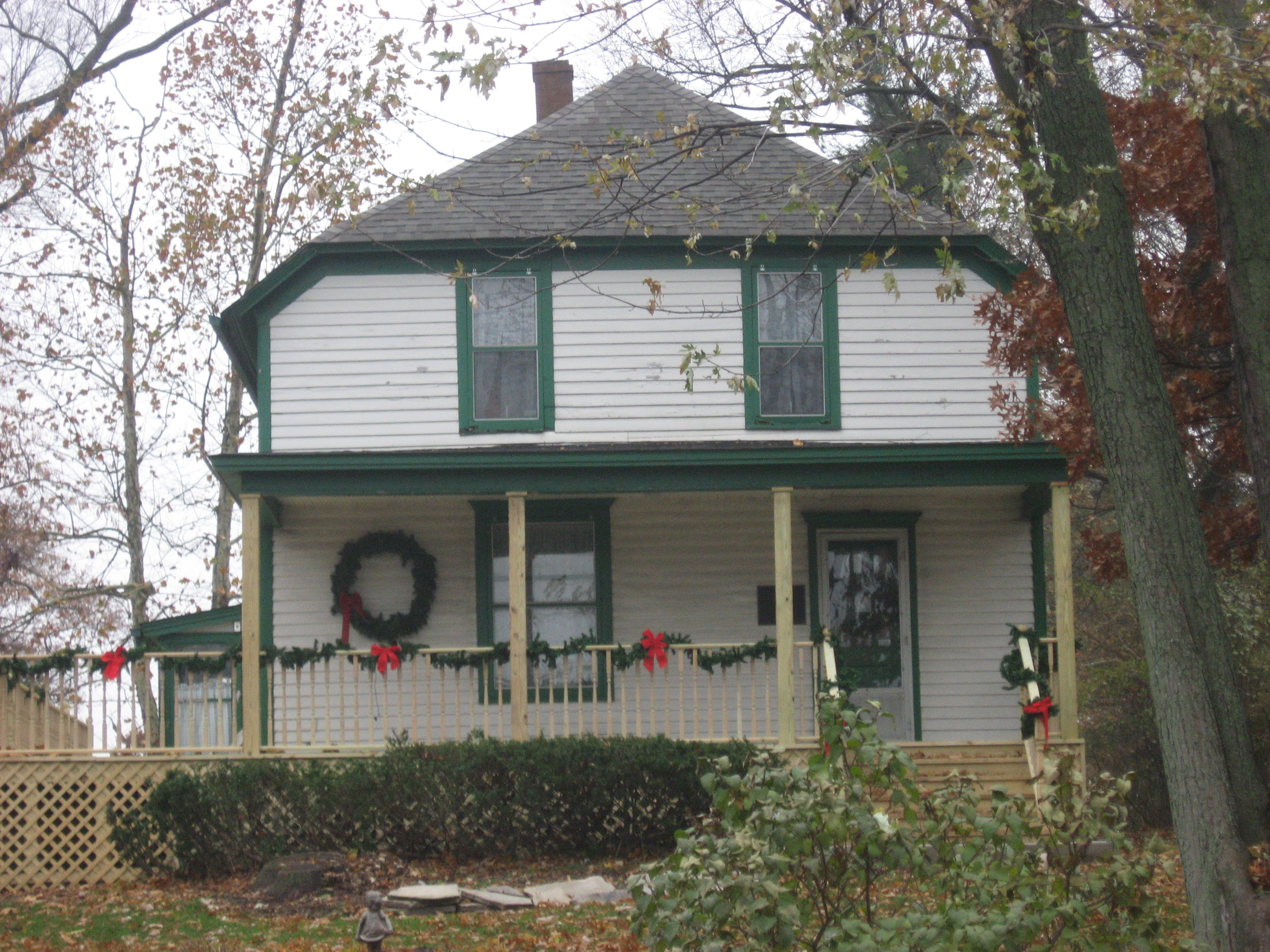 Front of the Kaske House, located at 1154 Ridge Road in Munster, Indiana, United States. Built in 1909, it is listed on the National Register of Historic Places.